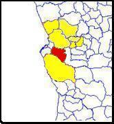 Municipality of Icolo e Bengo when it was part of the Bengo Province; after 2011 it became part of the Luanda Province